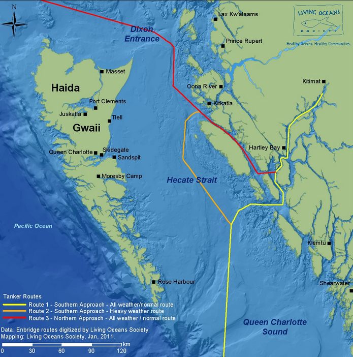 Proposed Tanker Routes through the Inside Passage to Kitimat